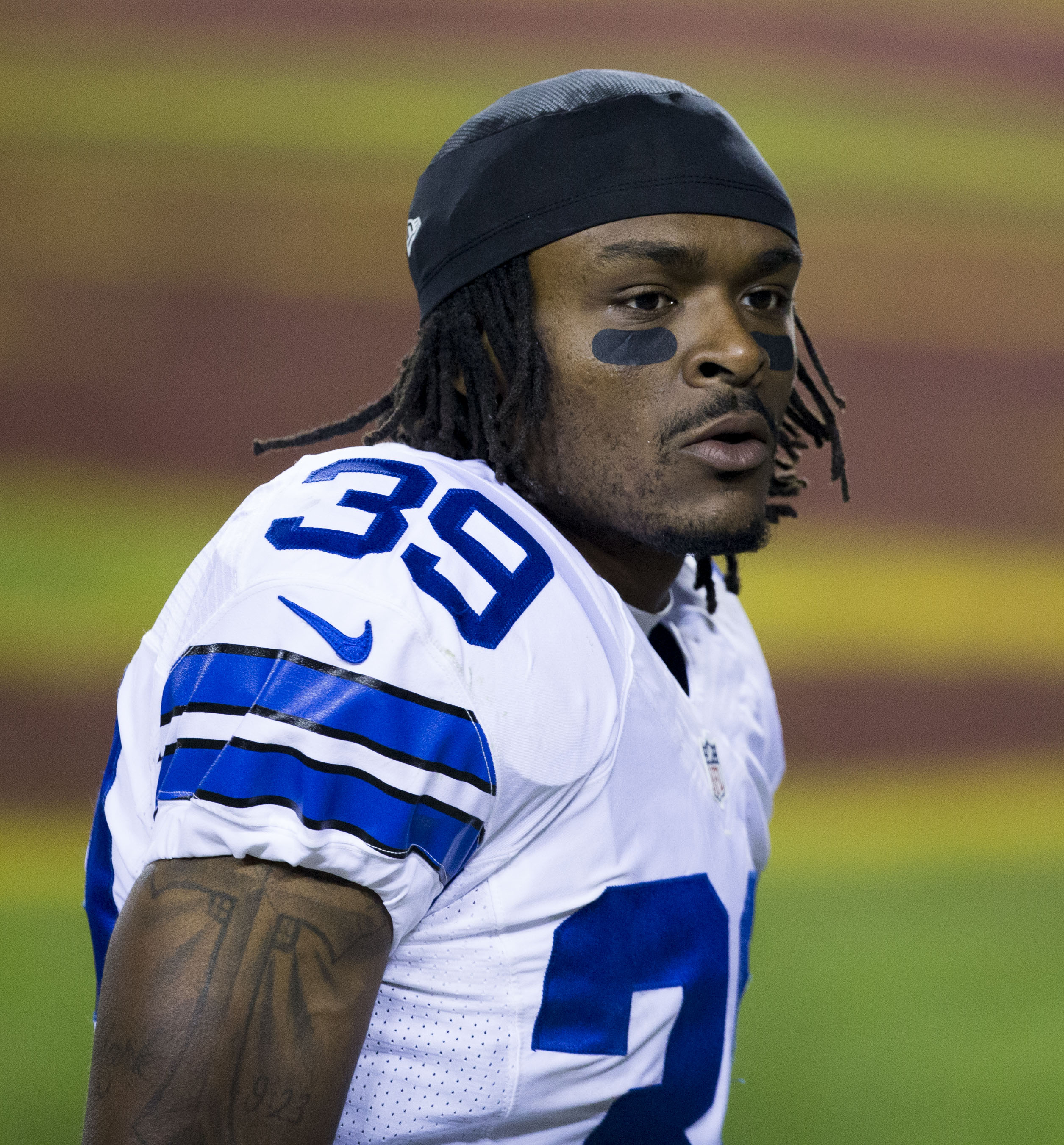 Dallas Cowboys cornerback, Brandon Carr, playing against the Washington Redskins on December 7, 2015.